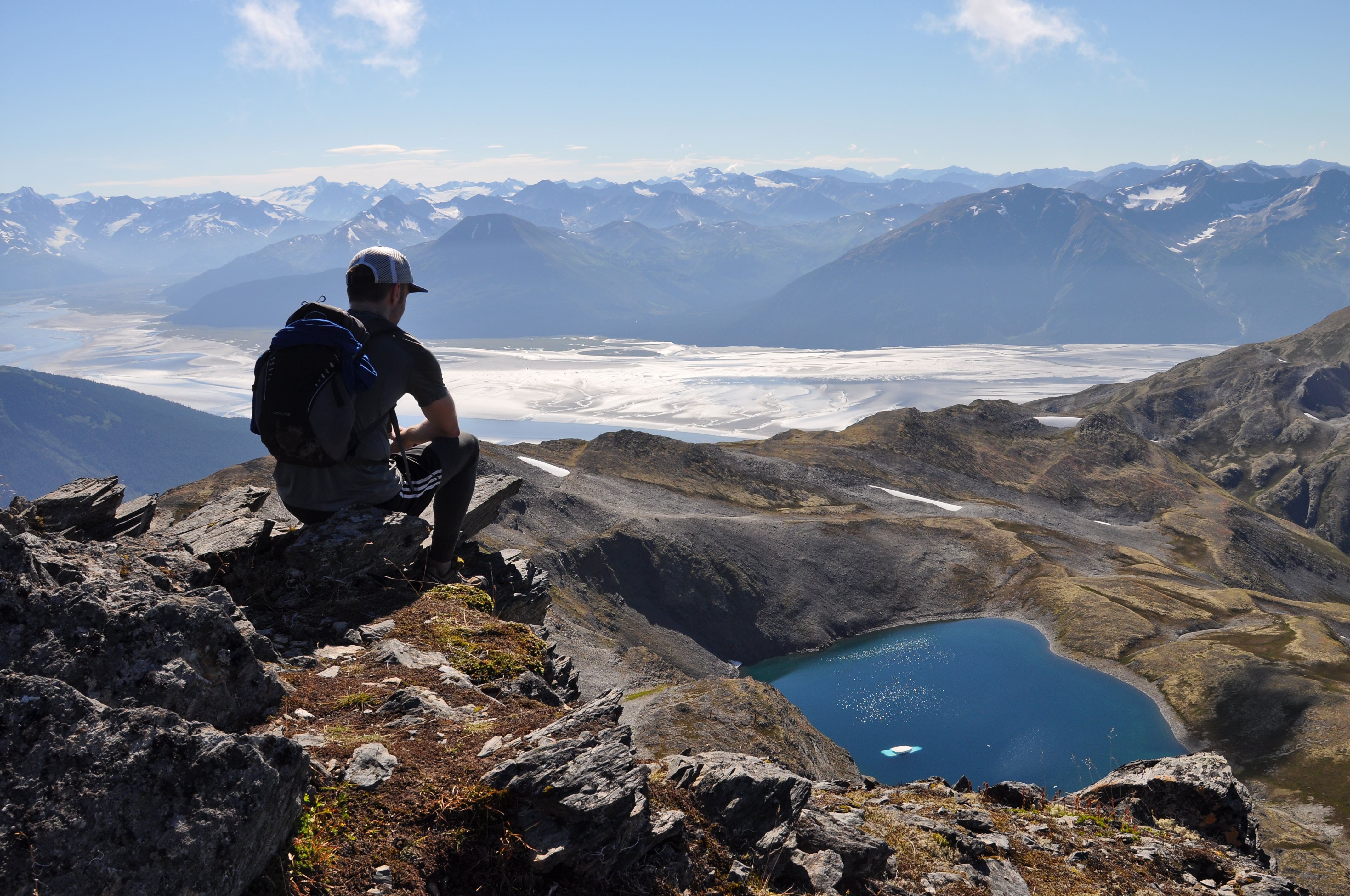 A hiker on the summit of Gentoo Peak, in Alaska's Chugach State Park, with upper Turnagain Arm in the background. Gentoo Peak is one in a handful of prominent peaks and points on the Penguin Ridge traverse between Girdwood and Bird.